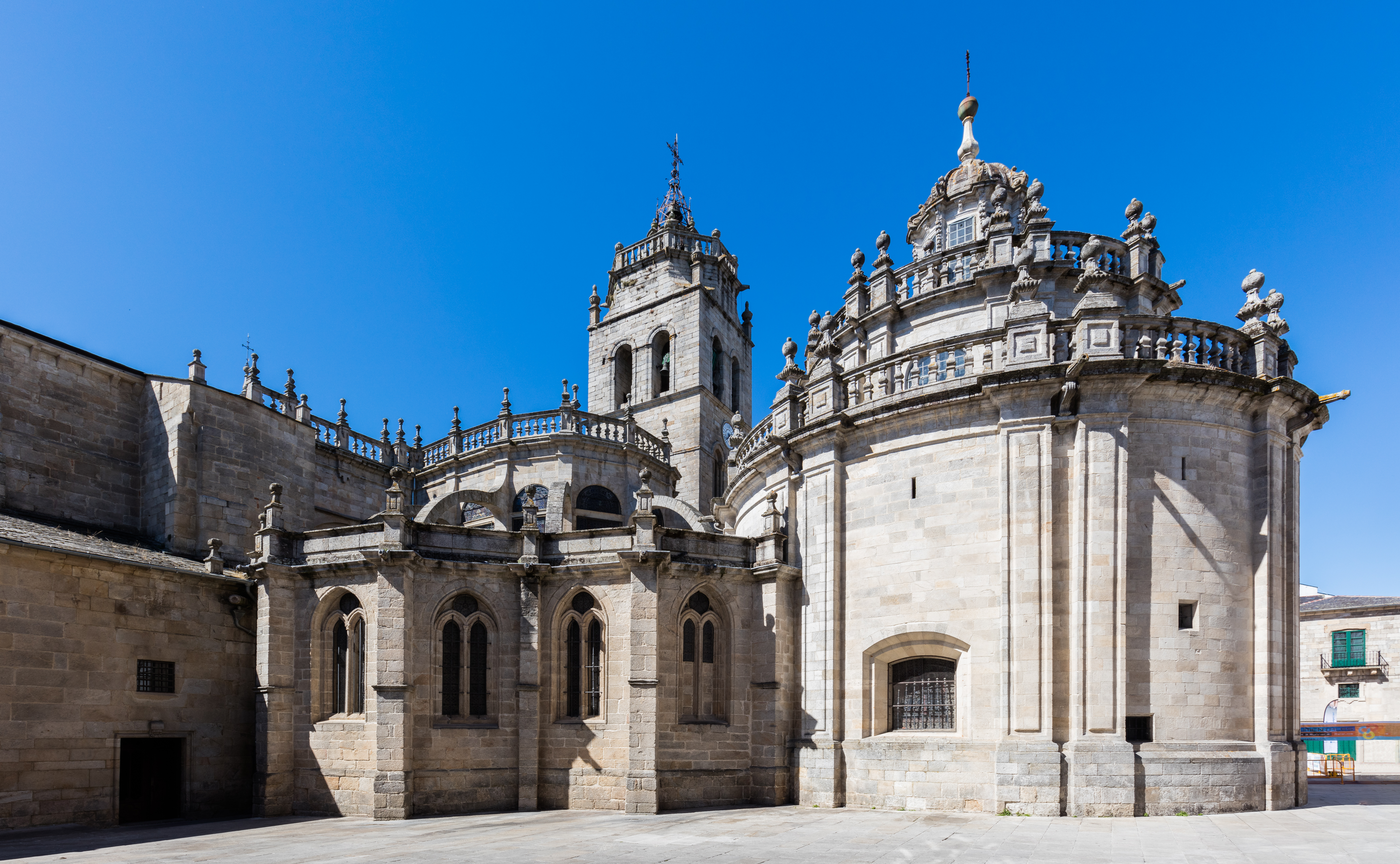 St Mary Cathedral, Lugo, Spain